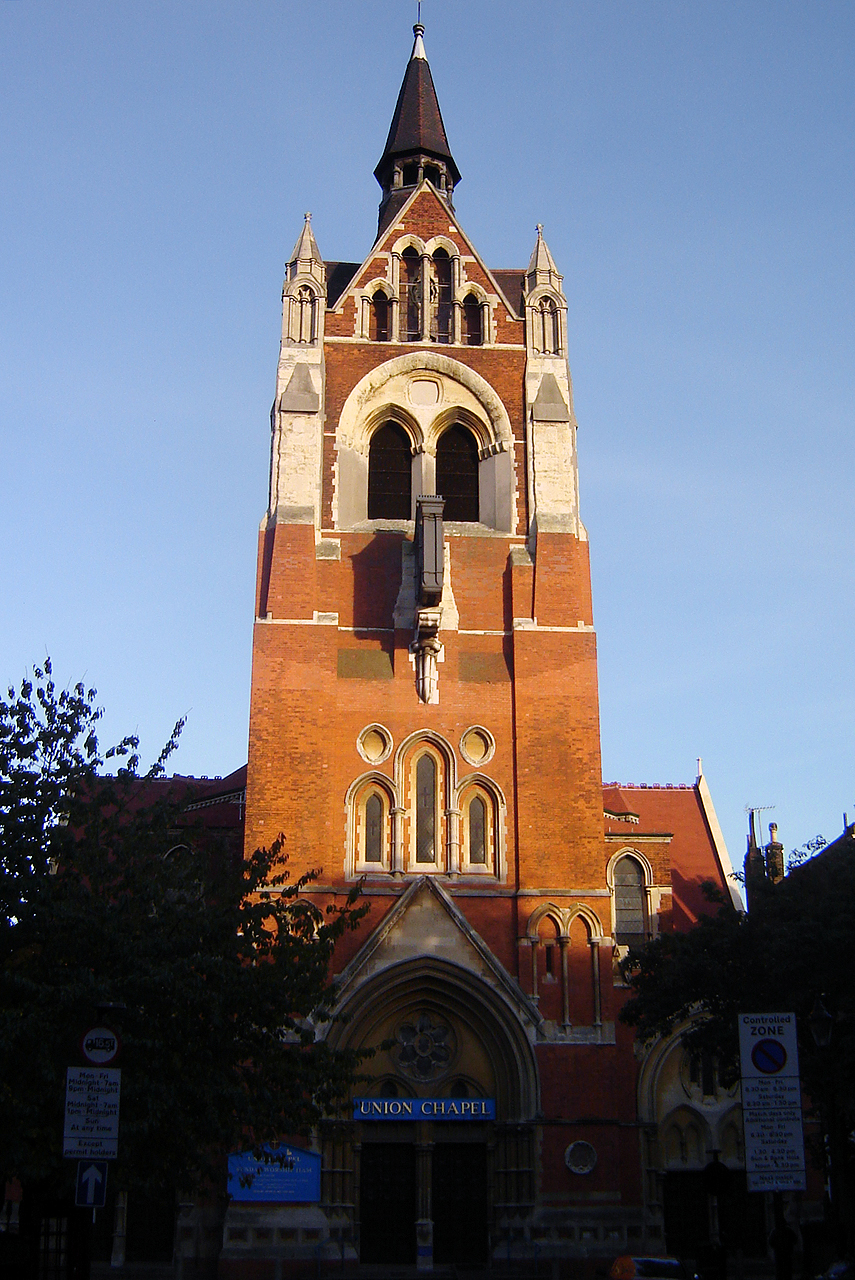 "The Union Chapel, Compton Terrace, Islington"